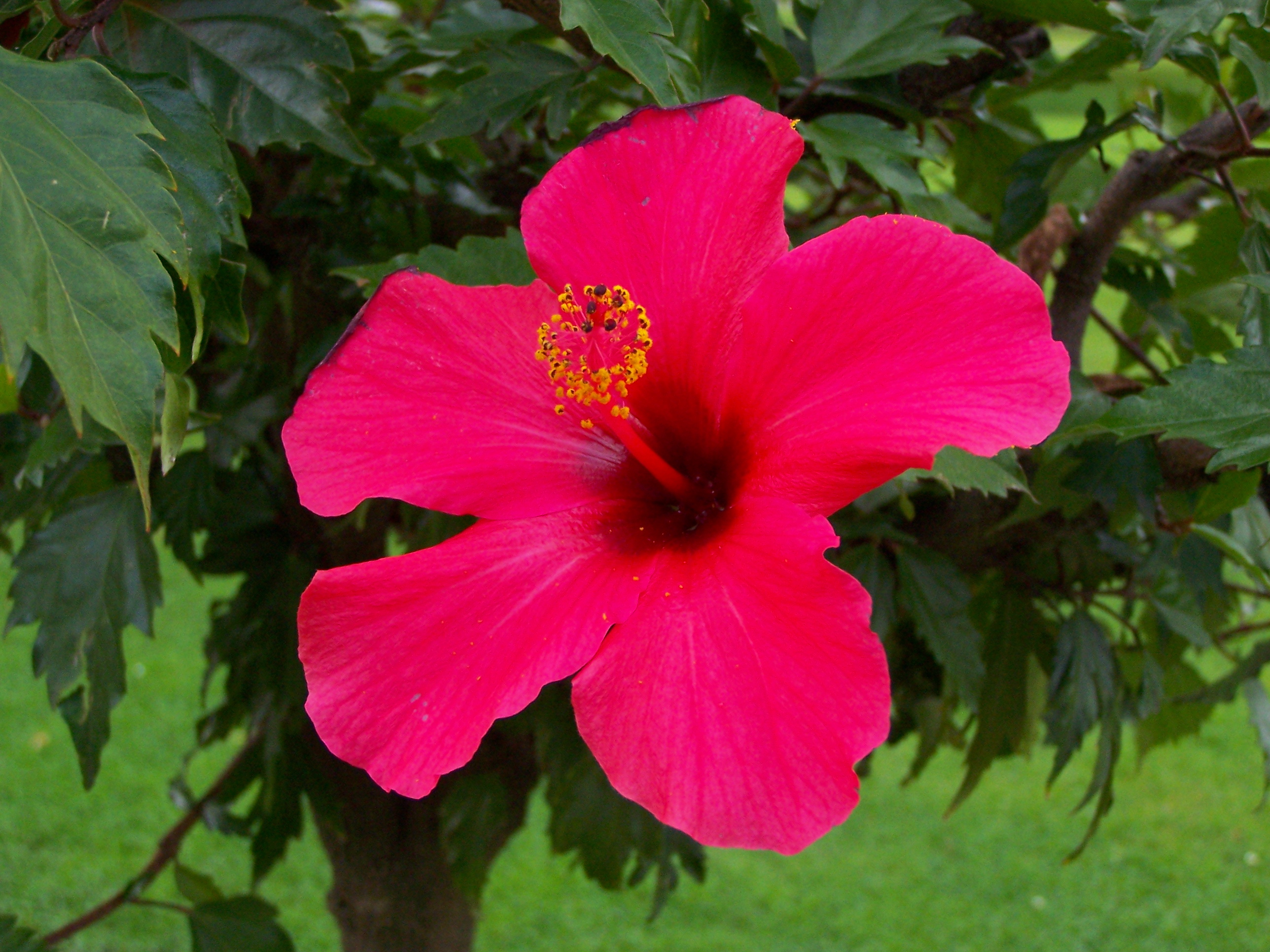 Hibiscus rosa-sinensis.